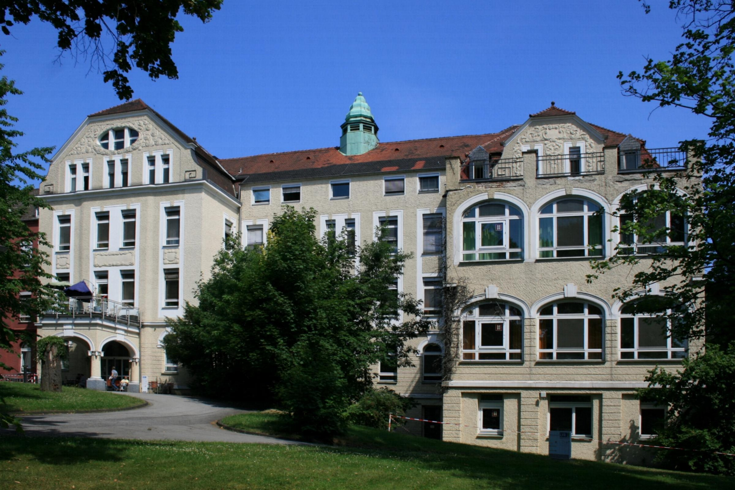 Cultural heritage monument No. H 050.2 in Mönchengladbach